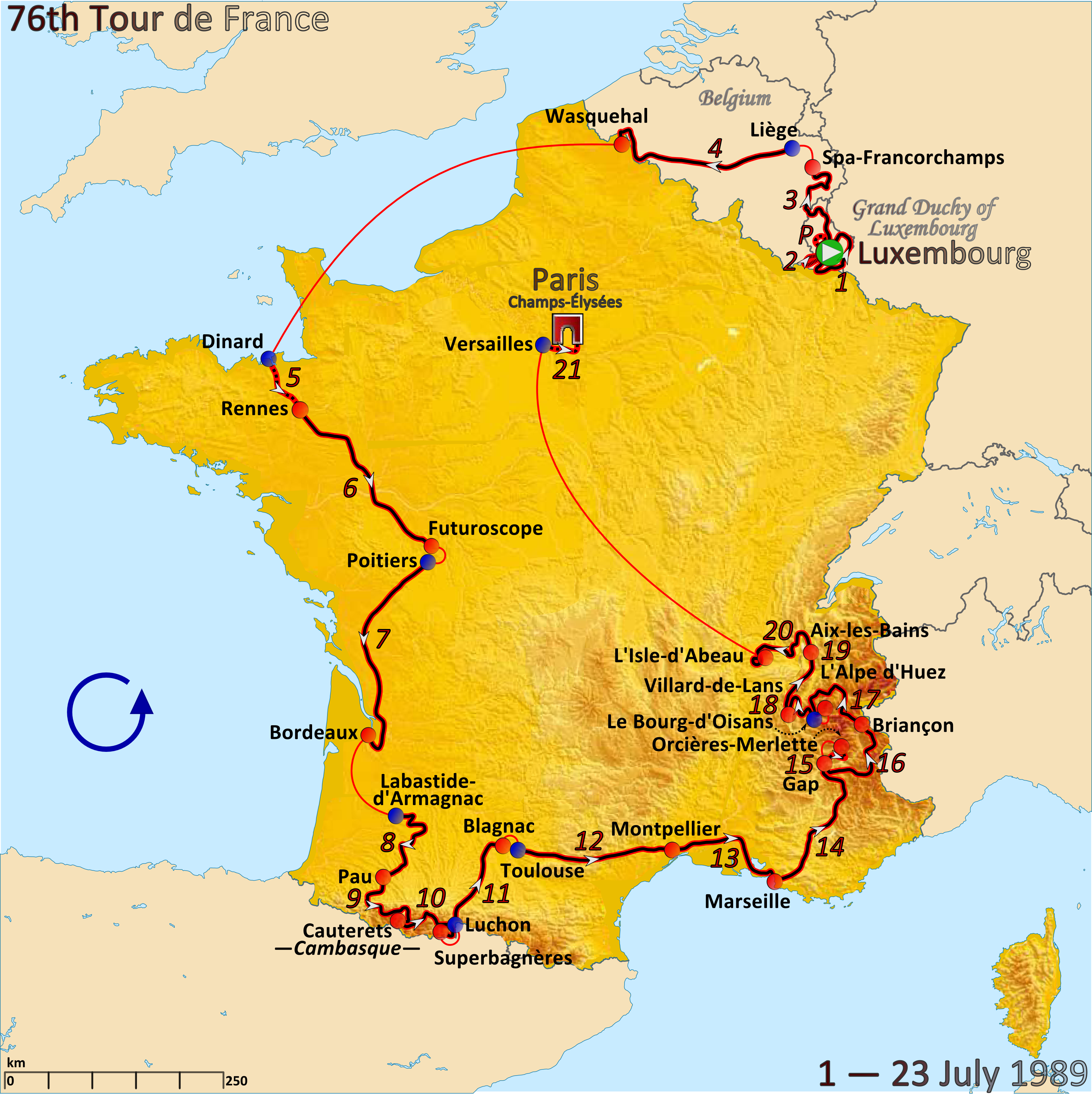 Map of the 1989 Tour de France created in Inkscape